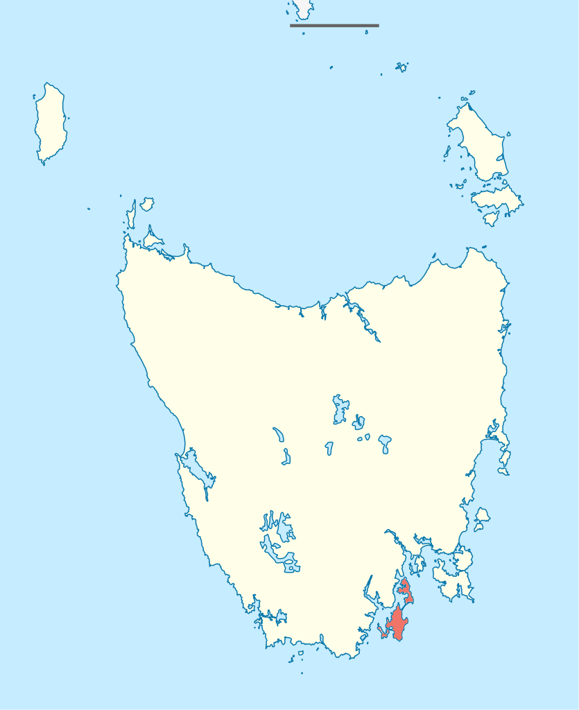 Part of a series of locator maps for Islands of Tasmania Based on File:Australia_Tasmania_location_map_blank.svg